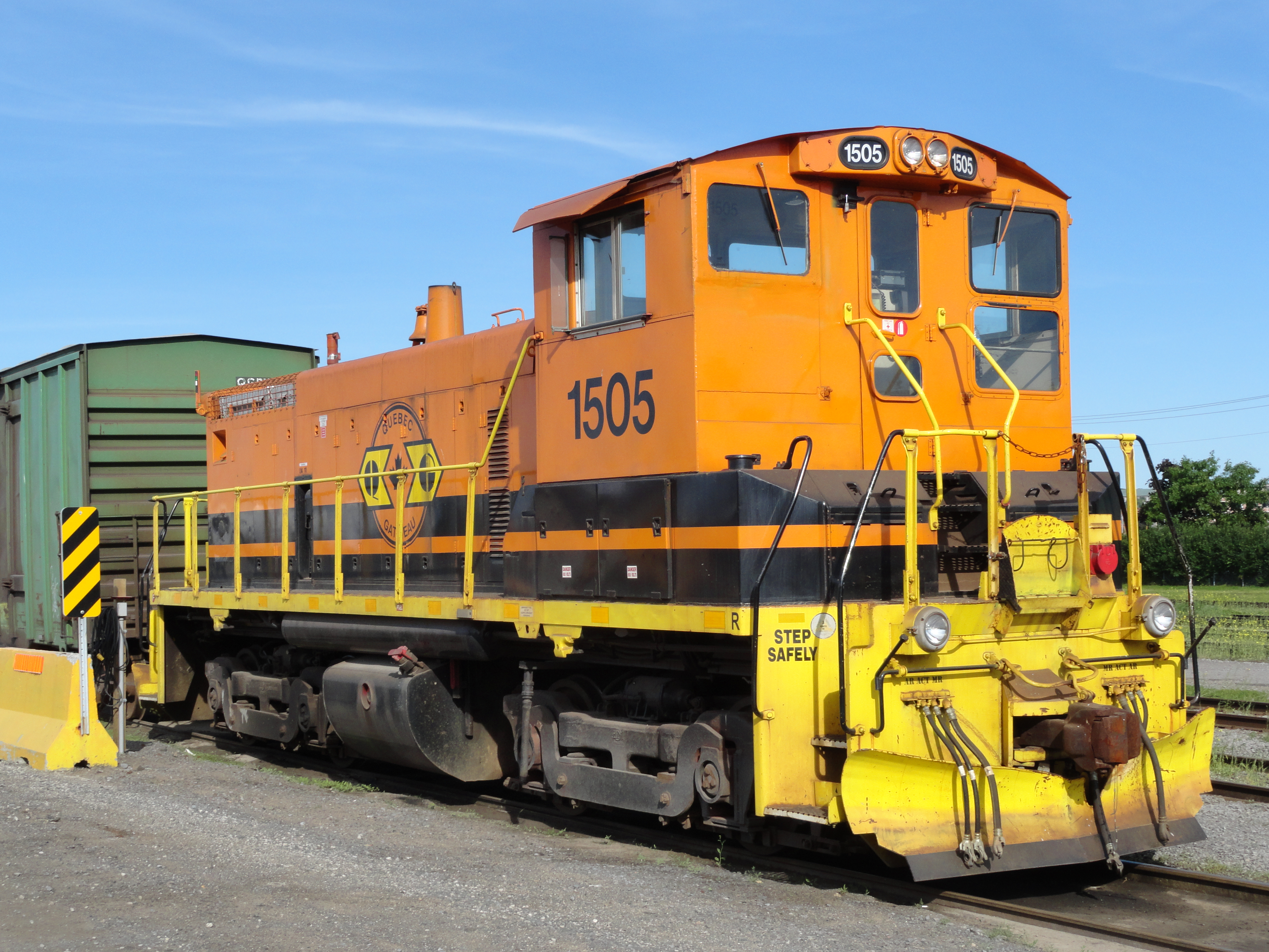 Locomotive no. 1505 of the Quebec Gatineau Railway in a small rail yard of Canadian National Railway in Quebec City. The locomotive is a model SW1500 manufactured by EMD.